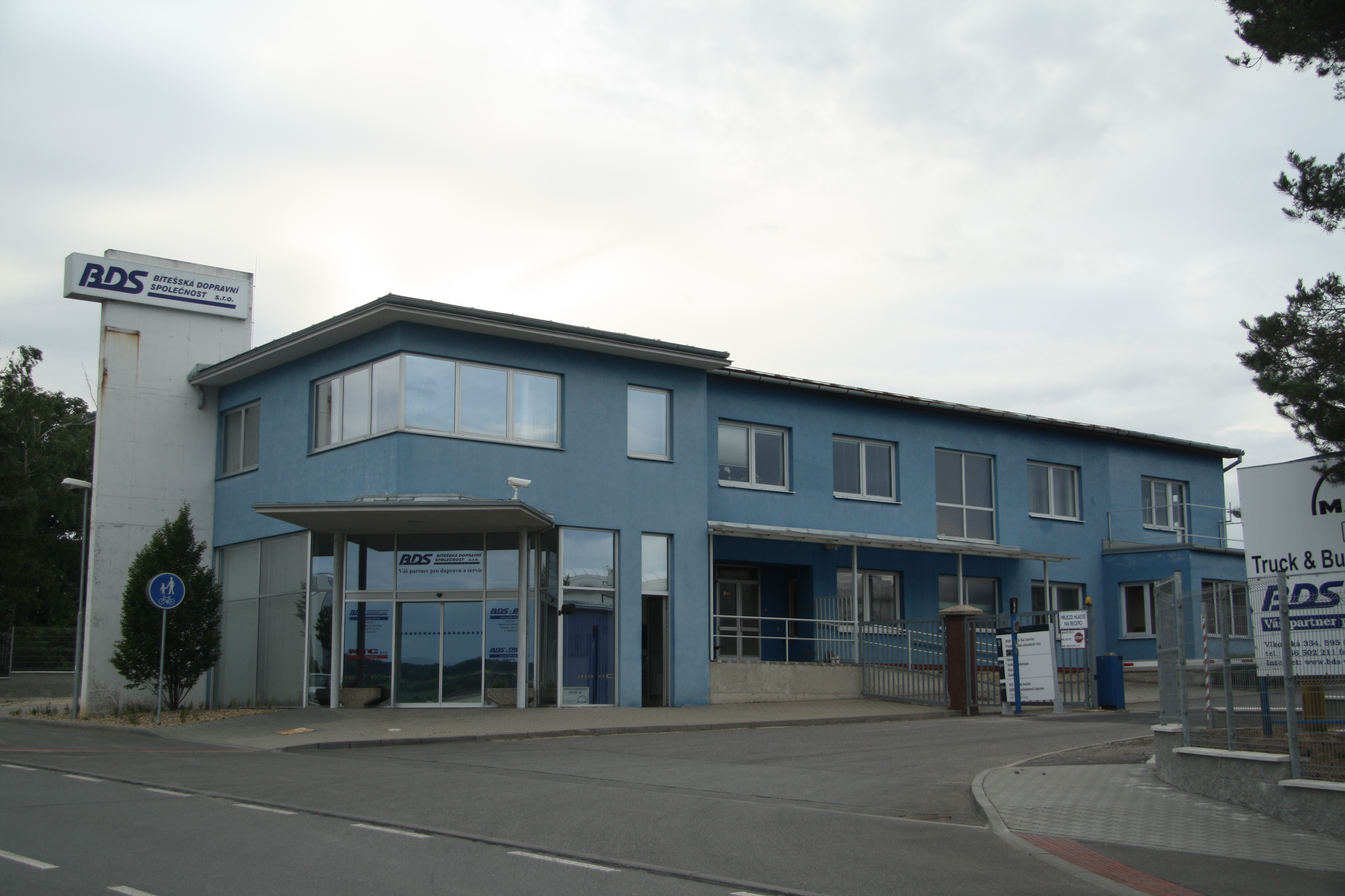 BDS-BUS offices in Velká Bíteš, Žďár nad Sázavou District.